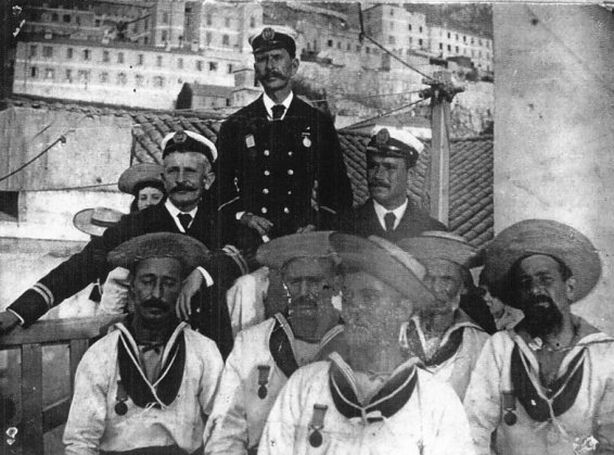 Members of the Gibraltar Port Authority - most of them unnamed local men - wearing medals awarded for bravery during sinking of the SS Utopia in Gibraltar Harbour.